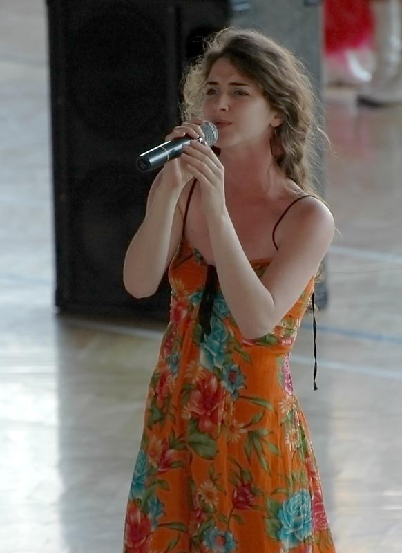 Humenanska Petra, slovak singer